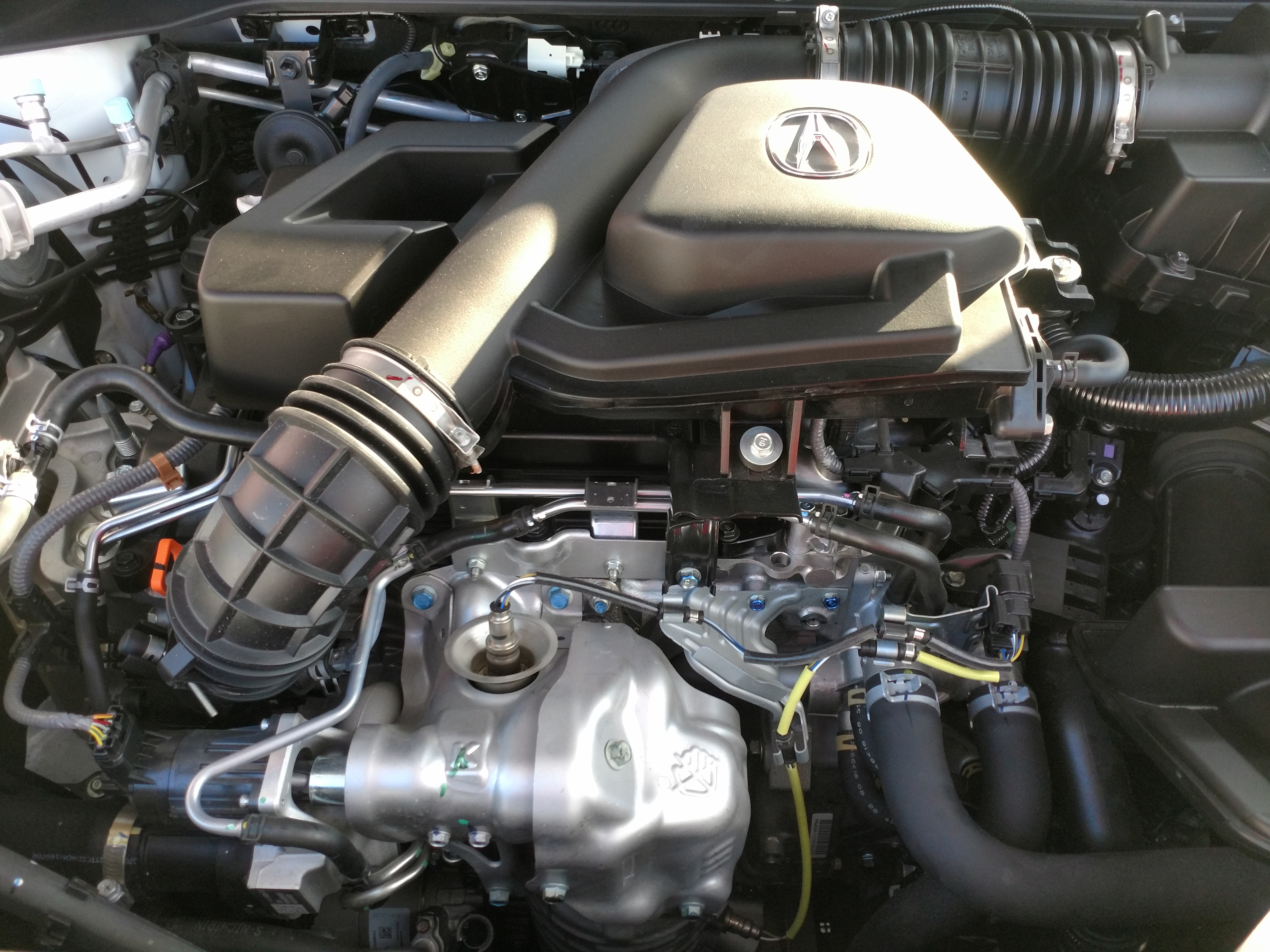 L15B9 Earth Dreams Engine in Acura CDX